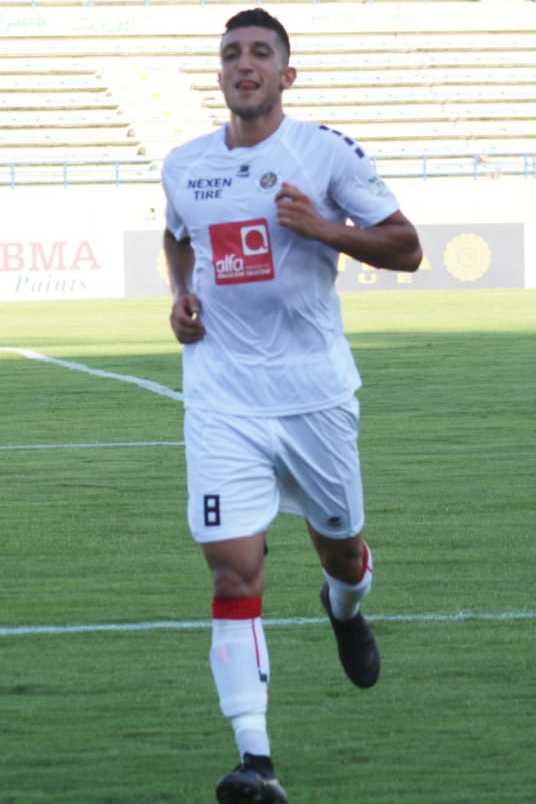 2019-20 Lebanese Premier League, Nejmeh vs Tadamon Sour